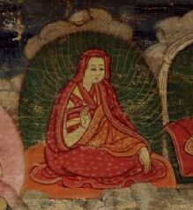 Zhang Yudrakpa Tsondru Drakpa (b.1123 - d.1193), founder of Tshalpa Kagyu lineage of Tibetan Buddhism